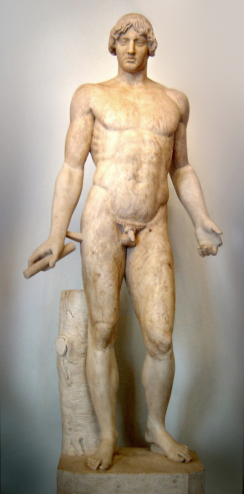 Copy of Omphalos Apollo attributed to Kalamis (480-460 a.C.). Musei Capitolini, Rome